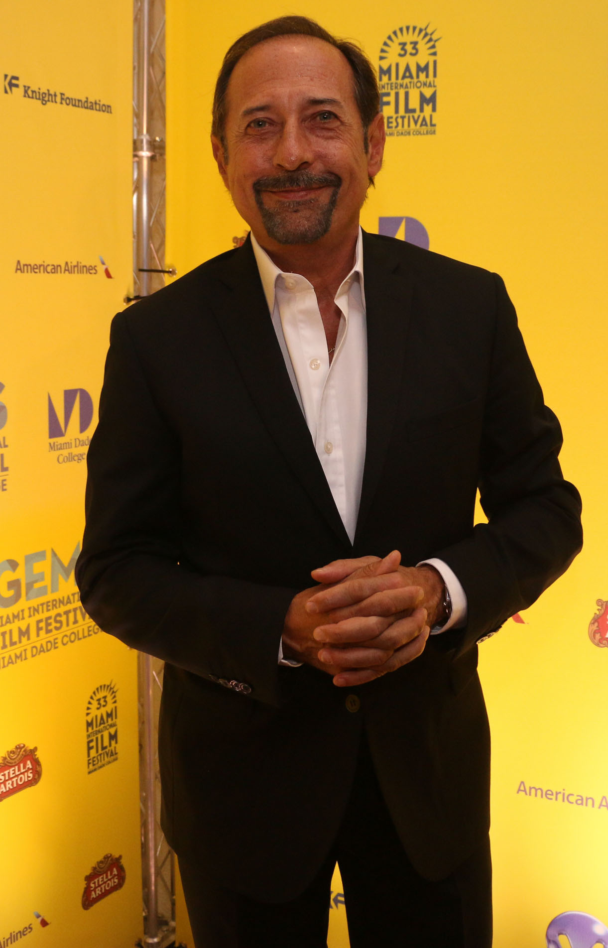 Guillermo Francella at the Miami International Film Festival